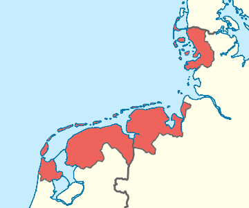 Geographic region of Frisia